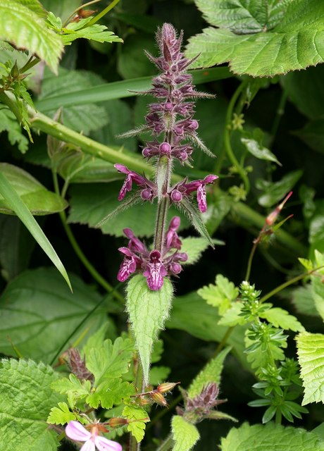 Hedge Woundwort, Moles Lane Stachys sylvatica is a common wayside plant, noteworthy for the pungent smell of its leaves. "Hedge Woundwort has been used for staunching blood. The leaves are antiseptic. The herbalist, Gerard, called it Clown’s All Heal and suggested pounding the leaves with hog’s grease and applying the mixture to wounds." I would imagine it has been used in many other medical ways in the past.